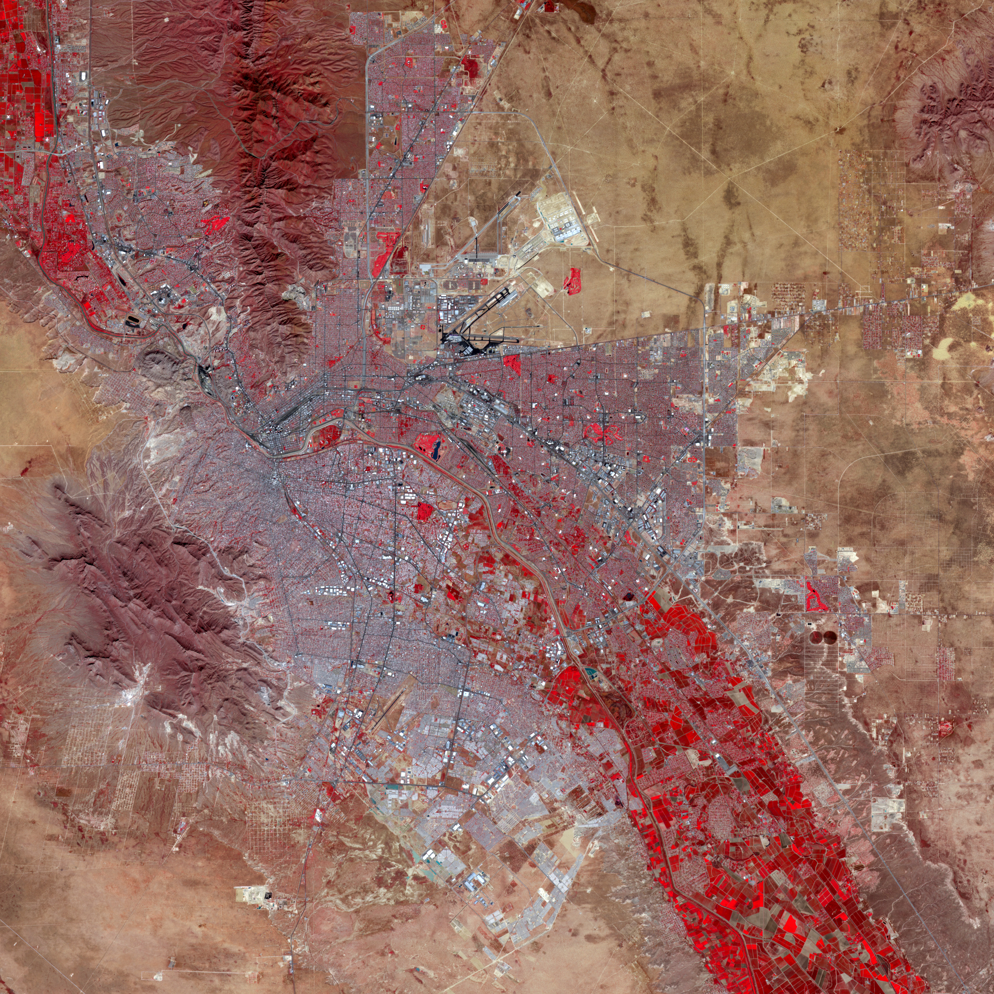 NASA image created by Jesse Allen, using data provided courtesy of NASA/GSFC/METI/ERSDAC/JAROS, and U.S./Japan ASTER Science Team